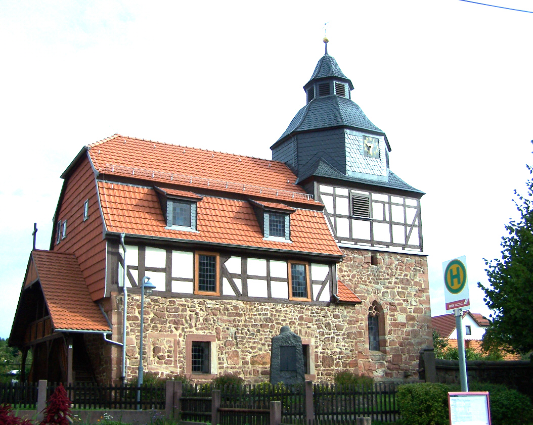 The church in Grossensee.